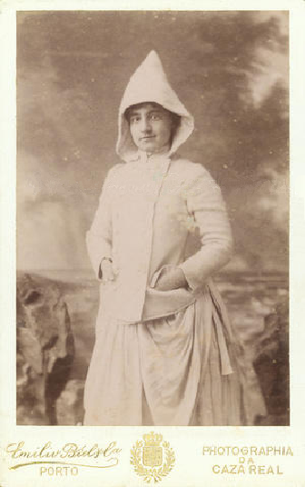 Carolina de Carvalho Burnay, Viscountess of Marco